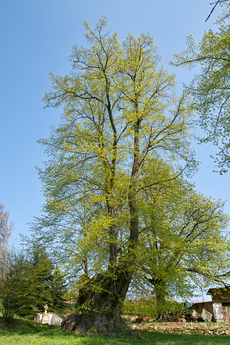 Ancient lime-tree in Maskovice near Povrly, Czech Republic (500-900 years)